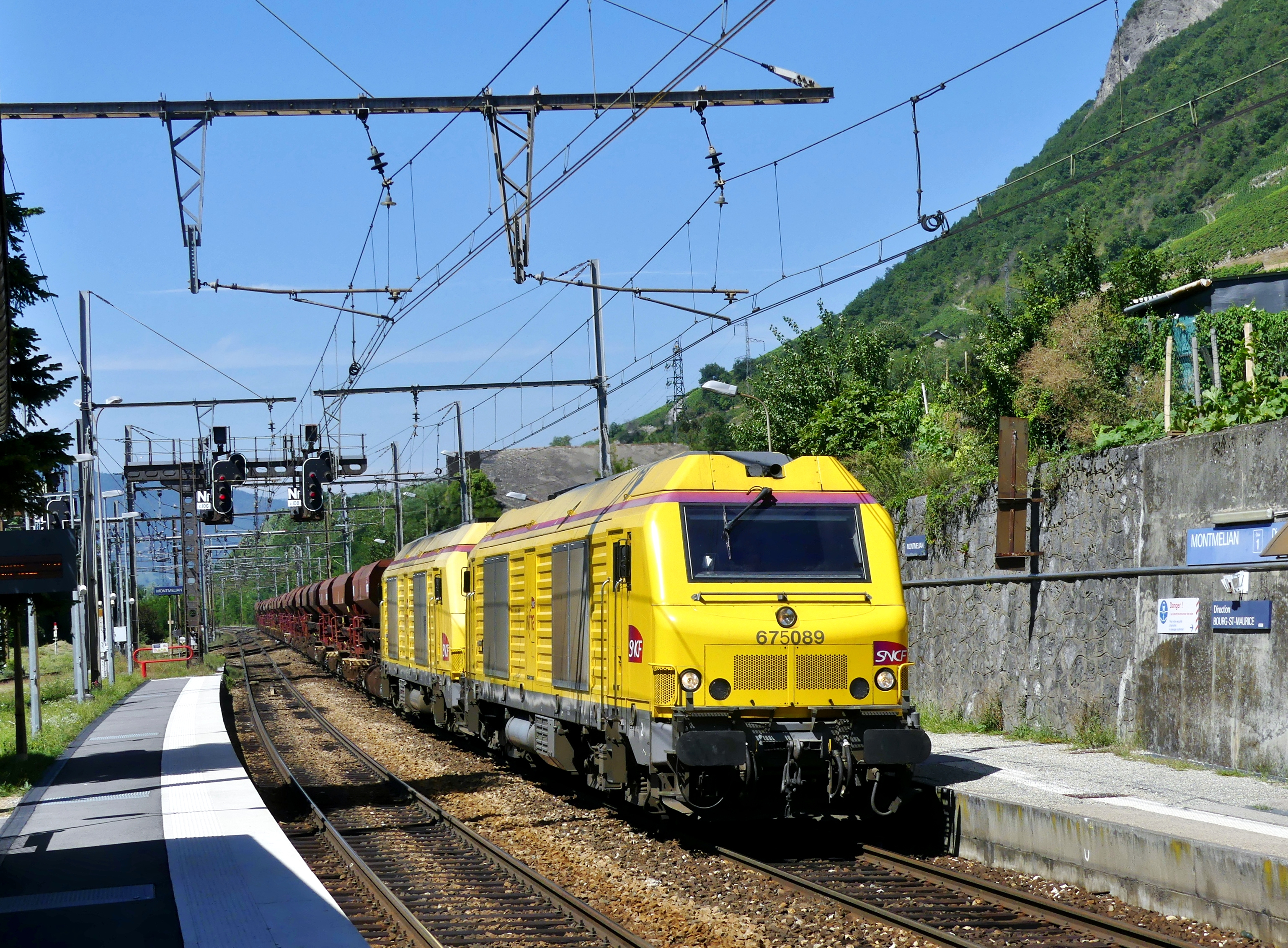 Sight of two SNCF Class BB 75000 engines leading a track ballast train to rail works occuring further in the Maurienne valley, here passing at Montmélian, in Savoie, France.